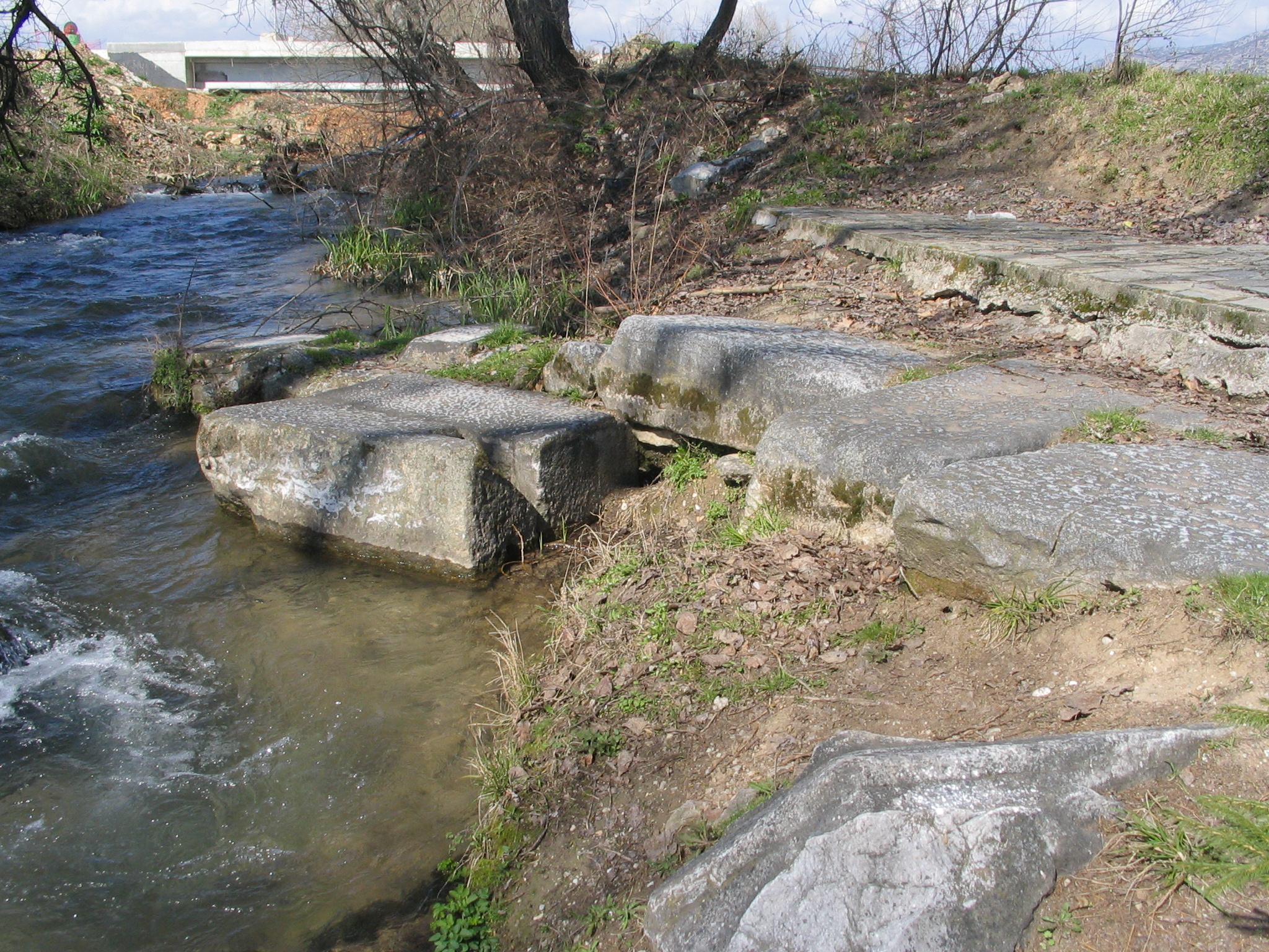 The stones in the foreground are the foundation of the Roman bridge that crossed this river just outside the West gate of ancient Philippi. The surviving paving stones (at right) are part of the via Egnatia, the Roman highway that facilitated travel through Macedon. It was likely near here that the small Jewish community of Philippi met each Sabbath to pray in the early 50s of the first century AD.